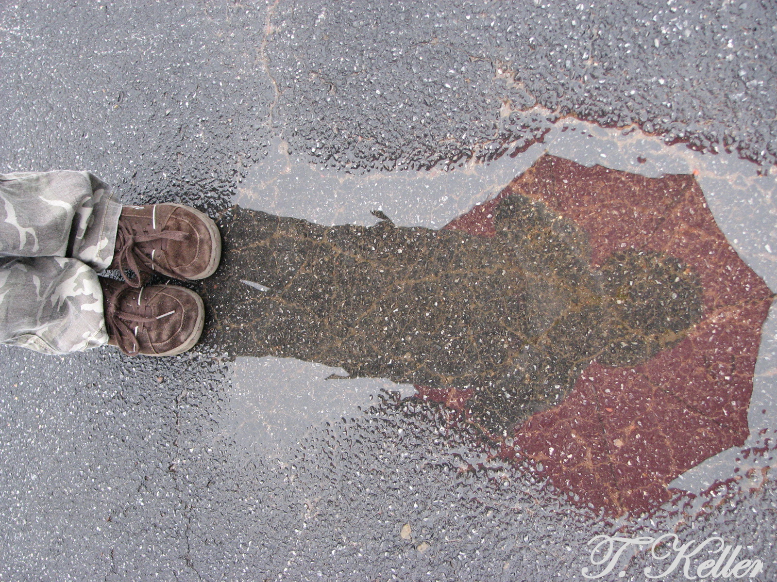 Umbrella reflection in a puddle.